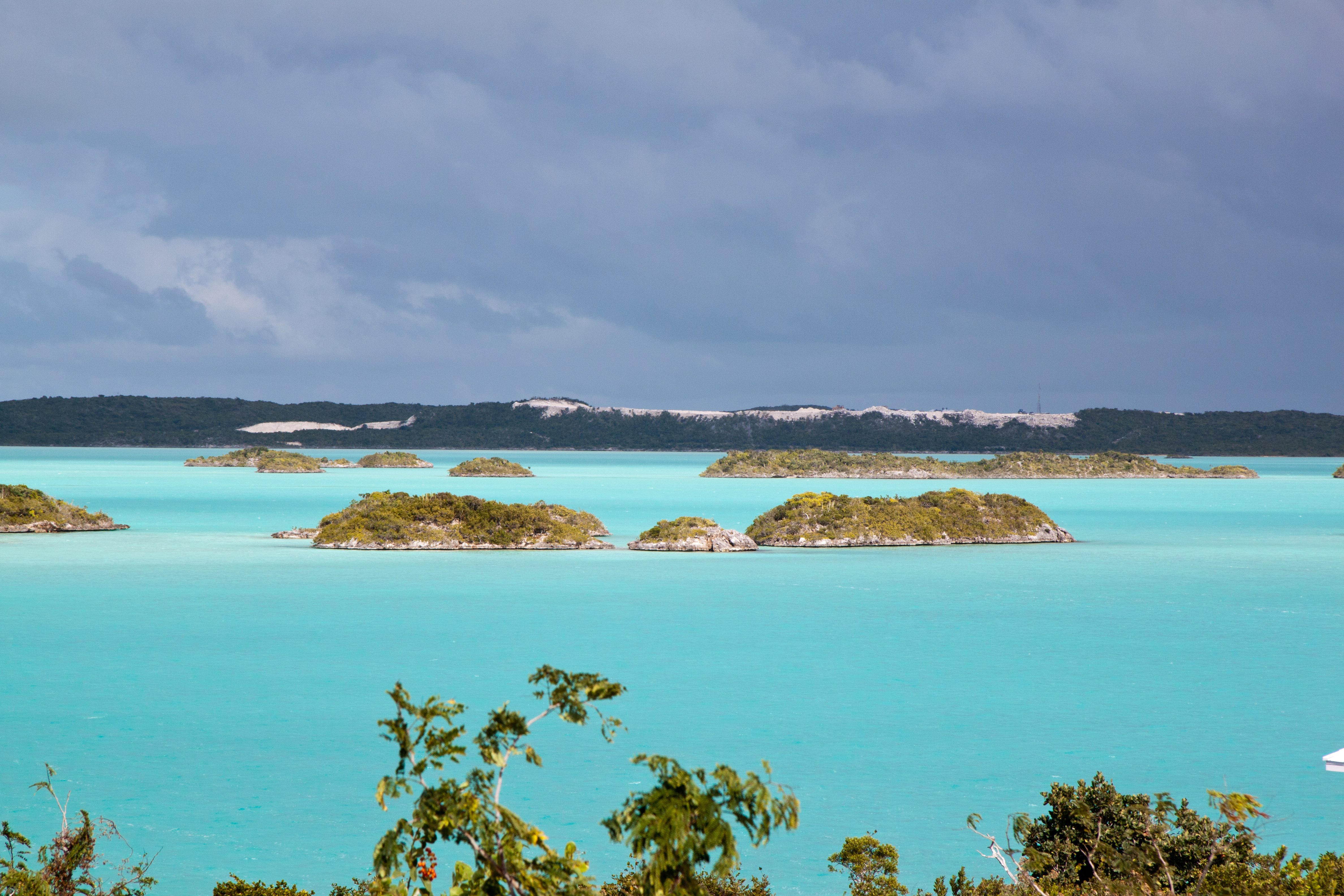 Chalk Sound has some of the most uniform turquoise water I have ever seen. Taken February, 2011 in Chalk Sound, Providenciales, Turks and Caicos Islands ¹⁄₄₀₀ sec at f/11, ISO200, no flash.